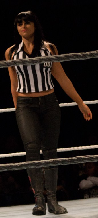 Aksana acting as a special guest referee at a WWE SmackDown live event in Montgomery, Alabama on January 7, 2012. Cropped from original image.